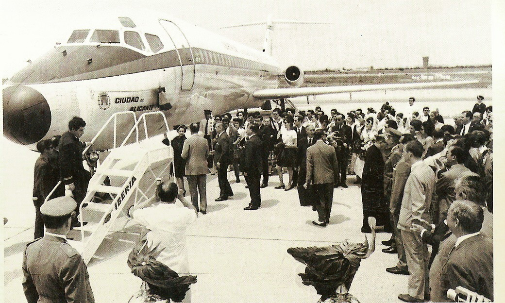 Alicante Airport in 1969